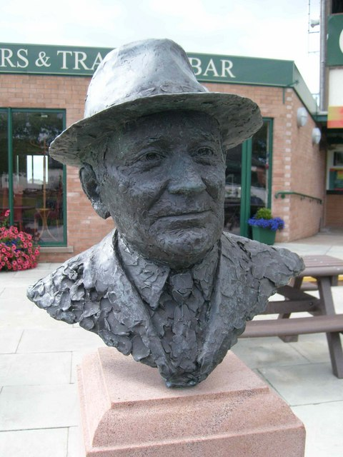 Bust of Sir Gordon Richards Famous jockey and racehorse trainer, commemorated at Carlisle Racecourse.